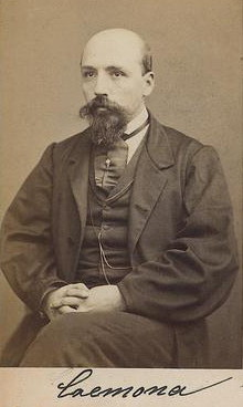 Portrait of Luigi Cremona (1830-1903)